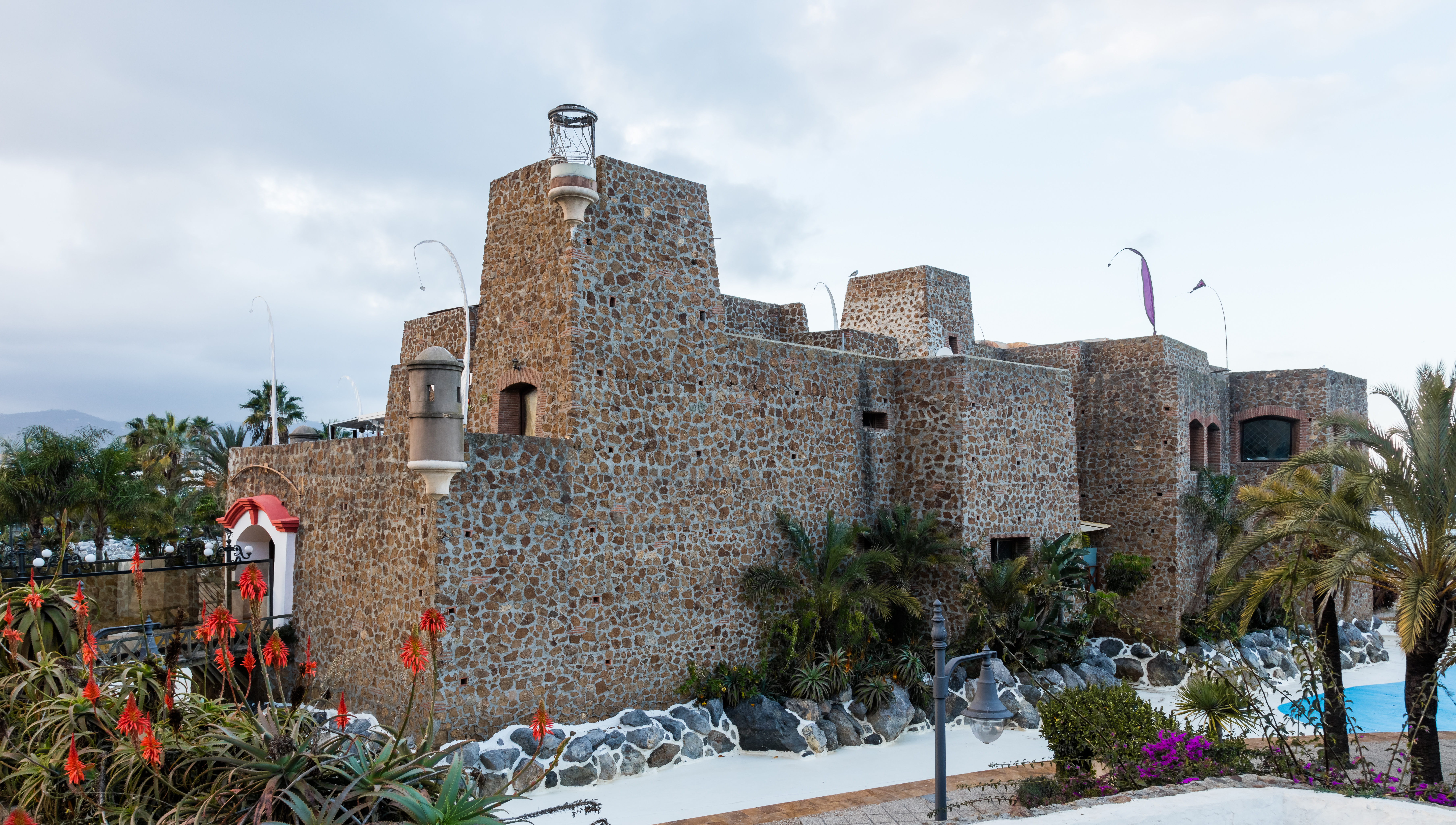 Gran Casino de Ceuta, Ceuta, Spain